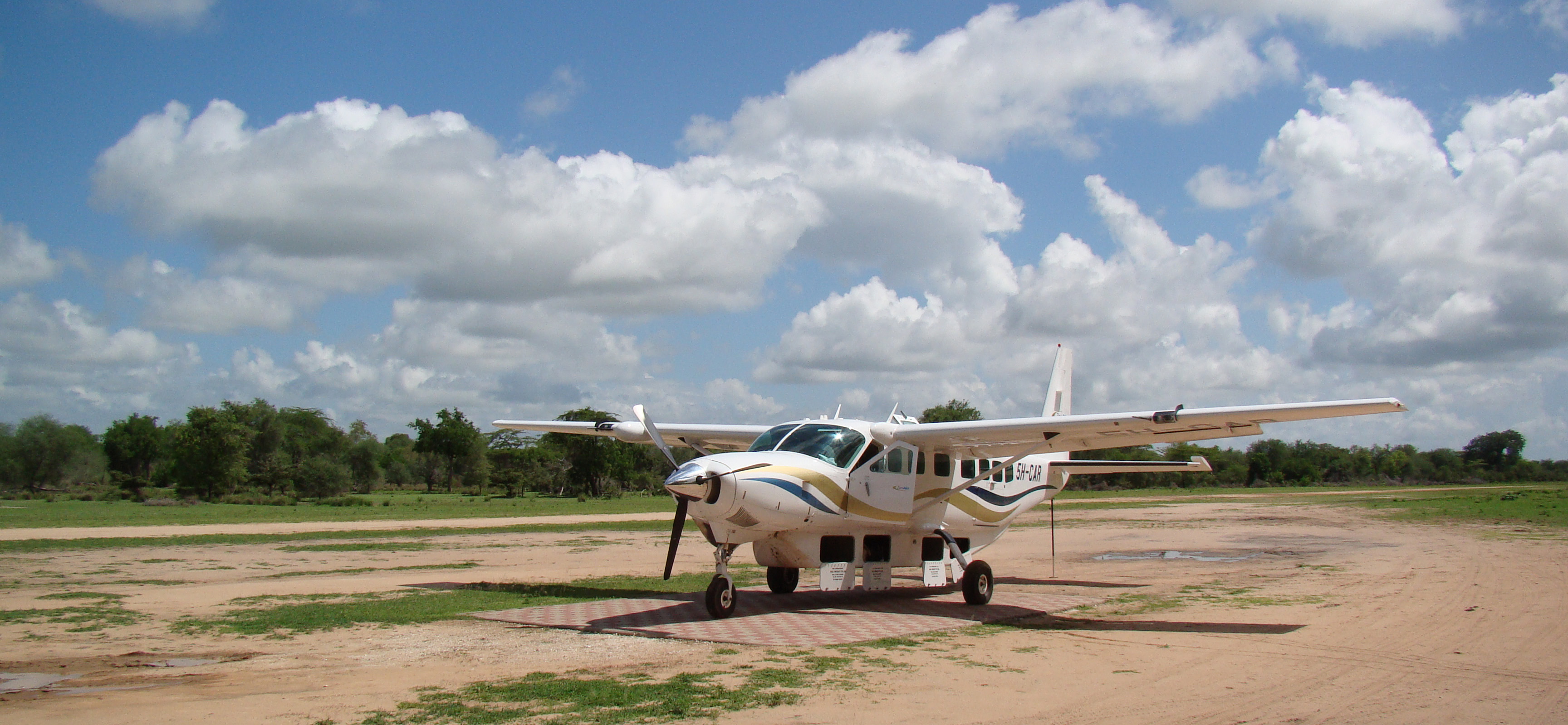 Central Tanzania, Selous Game Reserve. ZanAir plane on Mtemere Airstrip, Selous.